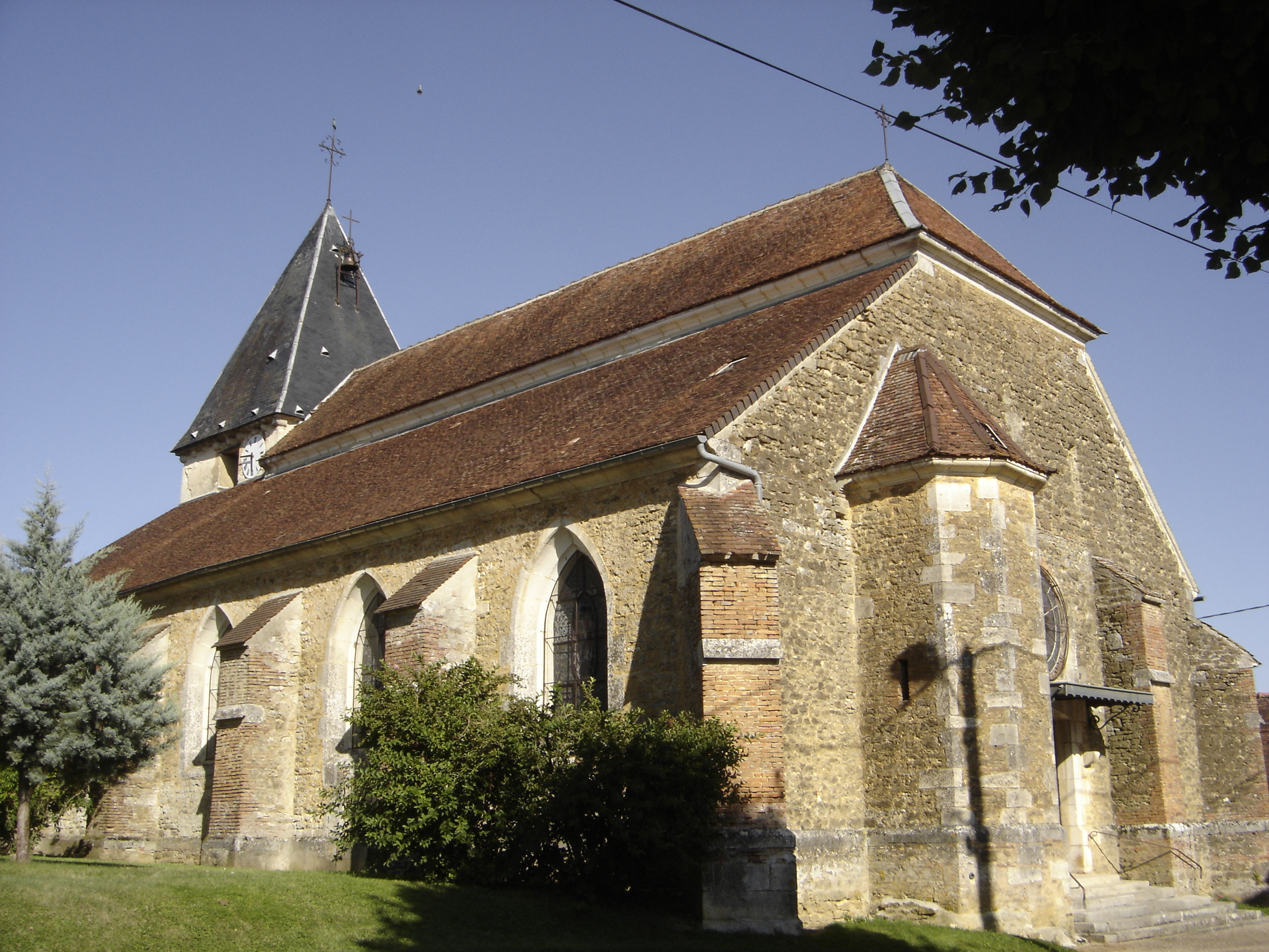 église de Marolles lès Bailly - Aube - France